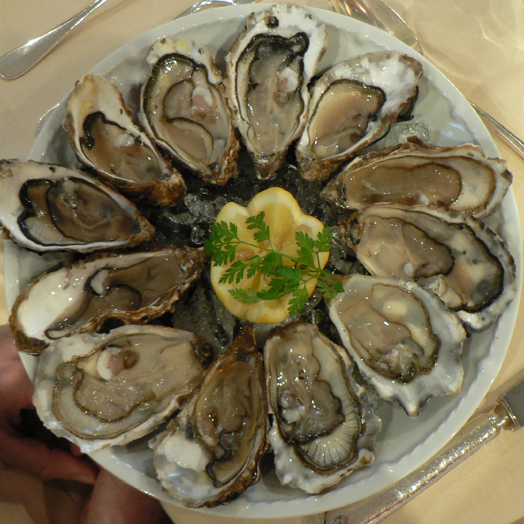 Oysters in circle on plateOysters